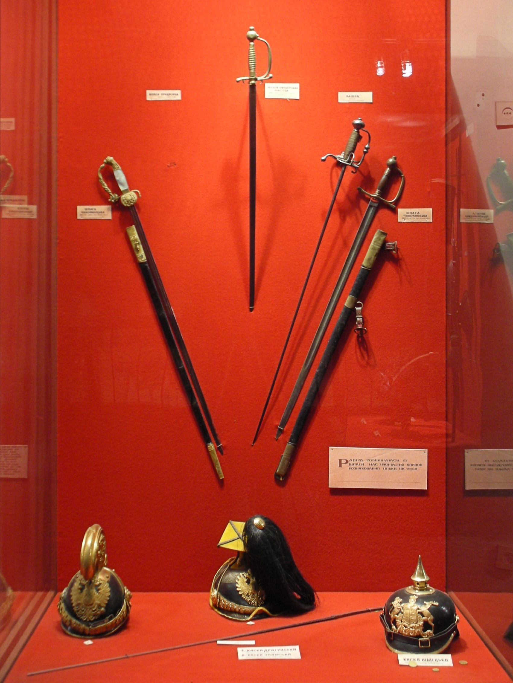 "Arsenal" Museum in Lviv (Ukraine).